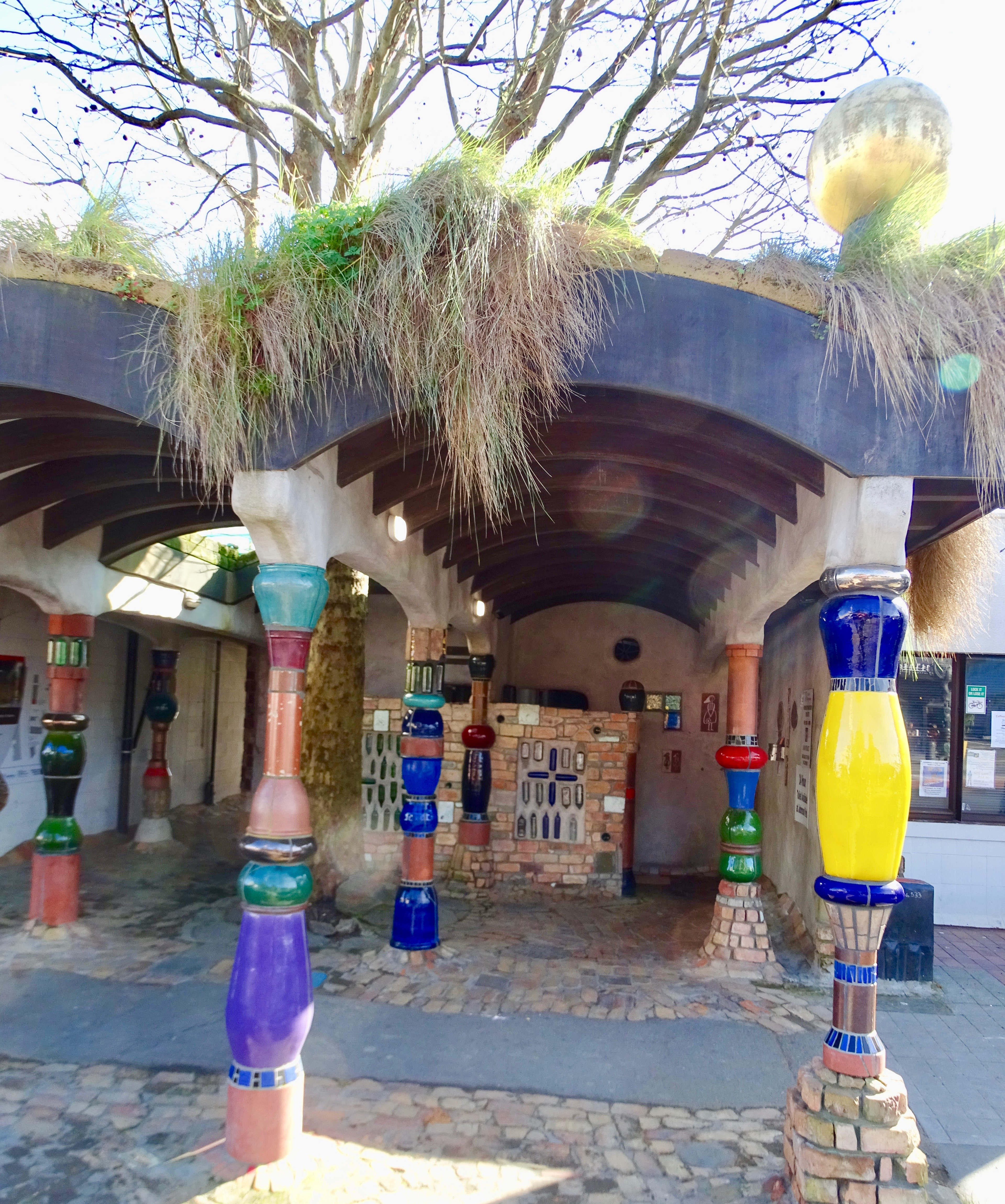 Entrance of the Hundertwasser Toilets in spring 2019